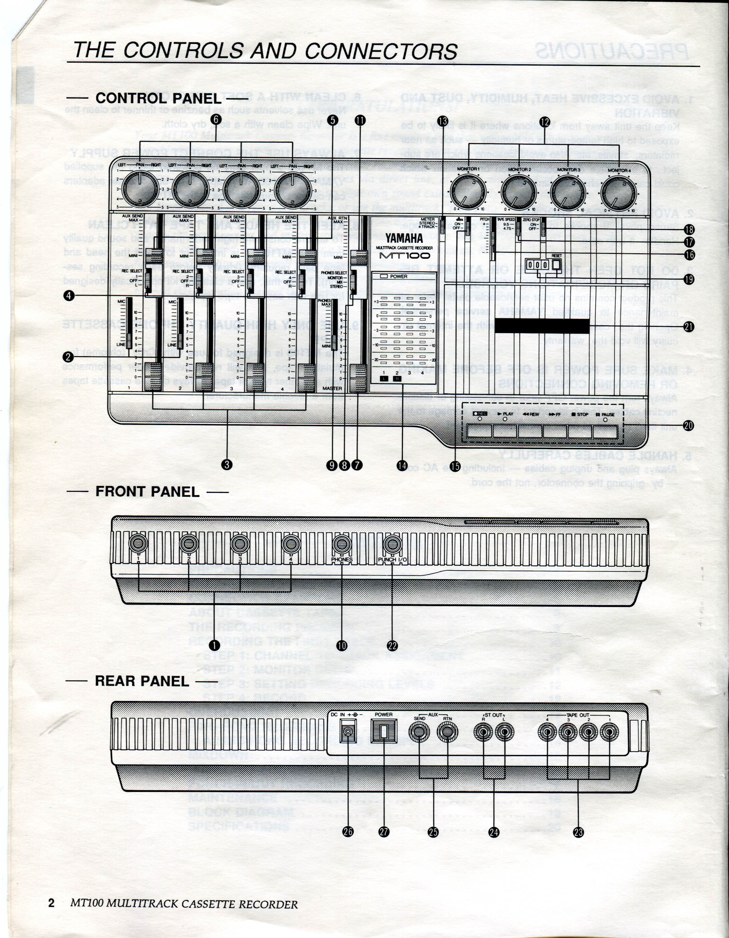 page 2 from manual showing basic layout of MT100.